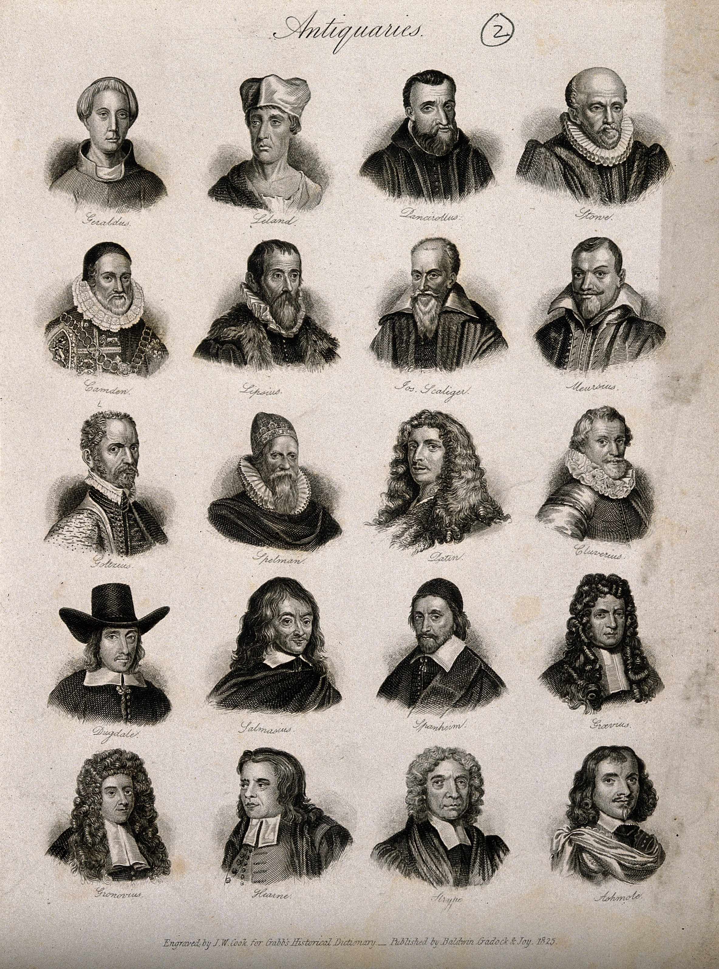 Antiquaries: twenty portraits of historians. Engraving by J.W. Cook, 1825. Plate to: G. Crabb, Universal historical dictionary, London, 1825 Iconographic Collections Keywords: Ezekiel Spanheim; Hubertus Goltzius; Meursius; J. W. Cook; Groevius; Gesualdus; Richard Dugdale; John Stow; Guy Pancirollus; Bartolomeo Platina; William Camden; John Strype; Josephus Justus Scaliger; Thomas Hearne; Henry Spelman; Justus Lipsius; John Leland; Claudius Salmasius; Laurens Theodorus Gronovius; Philippus Cluverius; Elias Ashmole